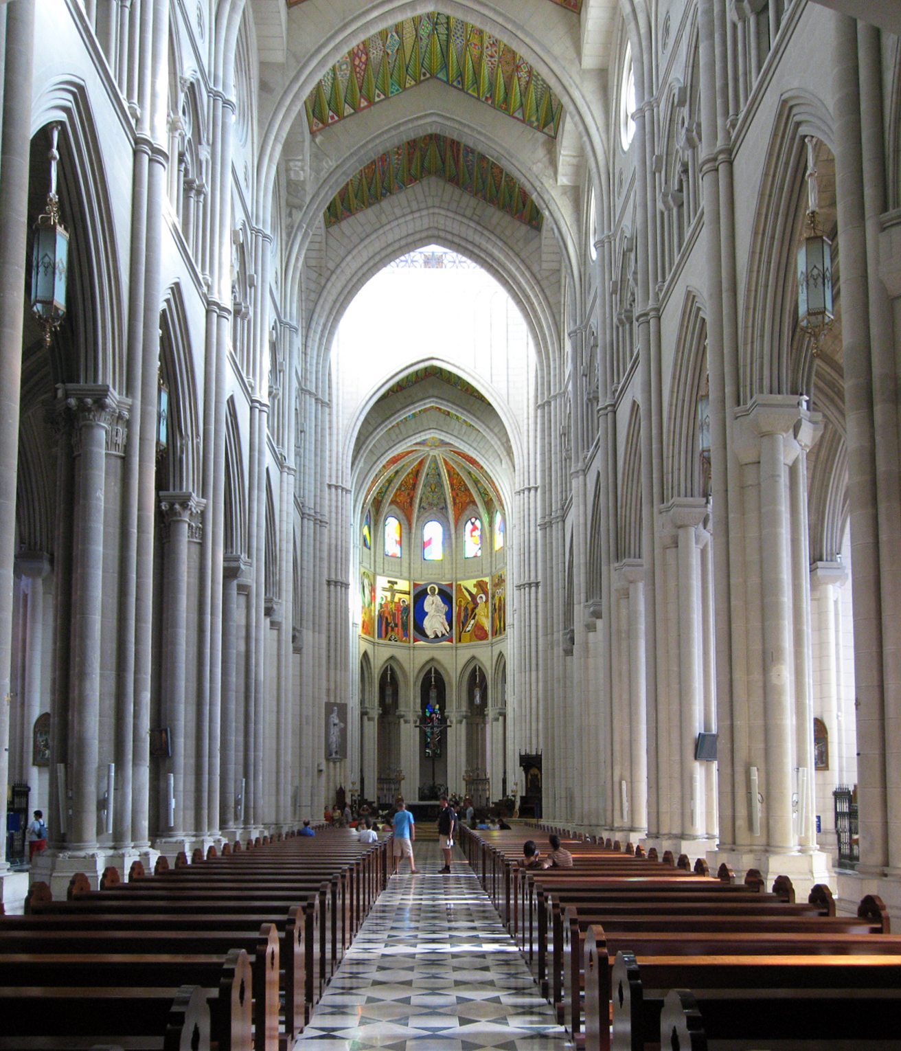 Interior of Almudena Cathedral, Madrid